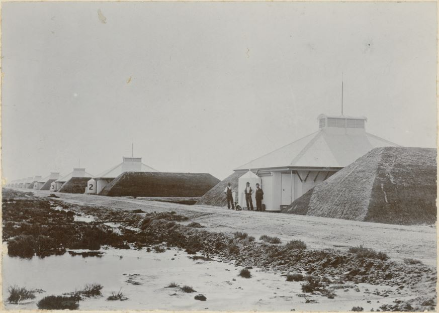 Powder magazines at Dry Creek, State Library of South Australia B-22286